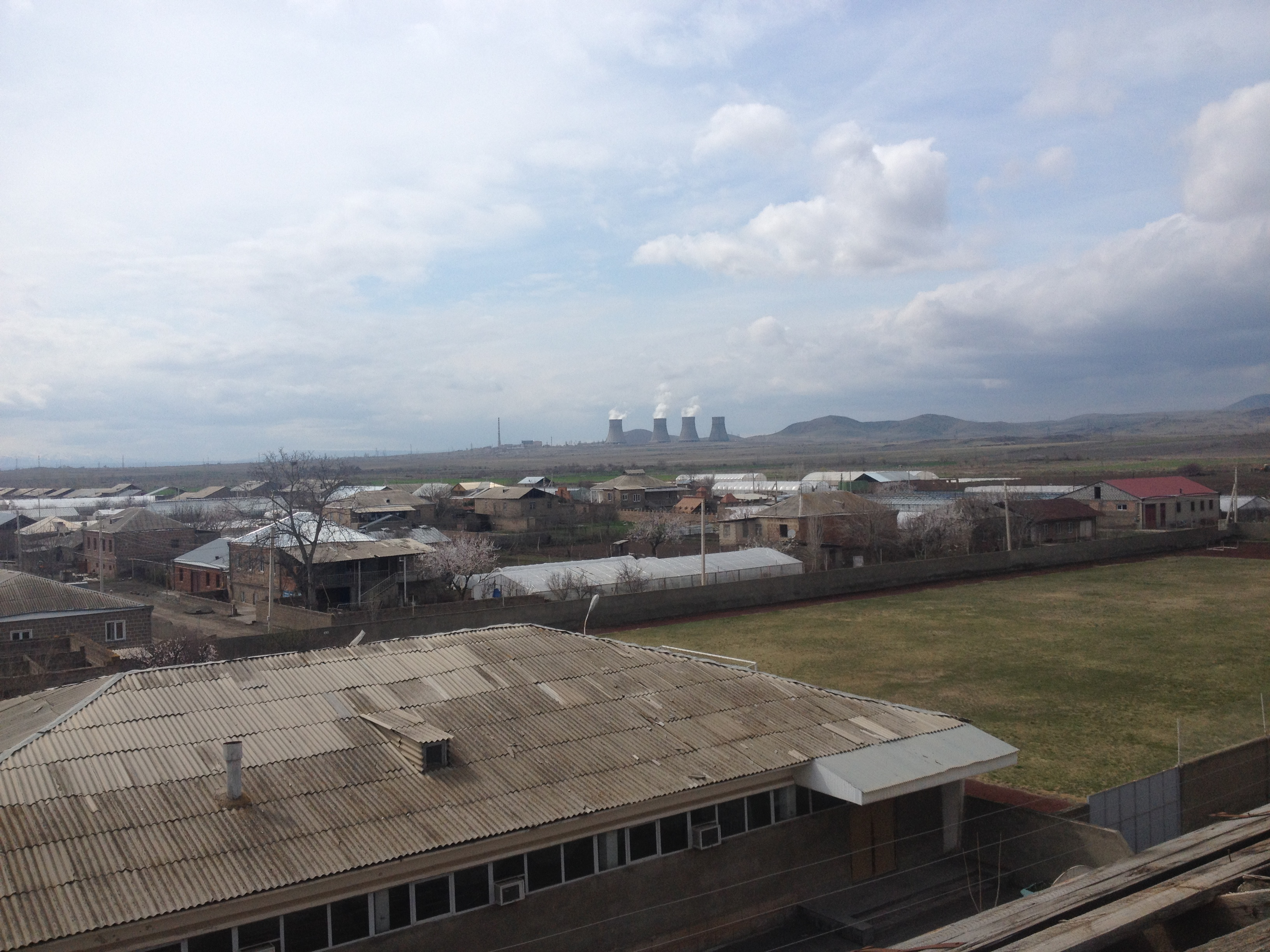 Դուք Տեսնում էք արշալույս գյուղը Մշակույթի տան Ամենա բարձր դիրքից